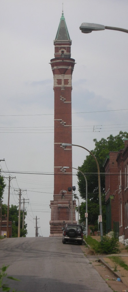 Water Tower at Bissell and Blair in College Hill neighborhood, north St. Louis, Mo